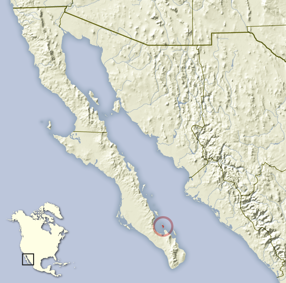 Distribution map of the Black jackrabbit